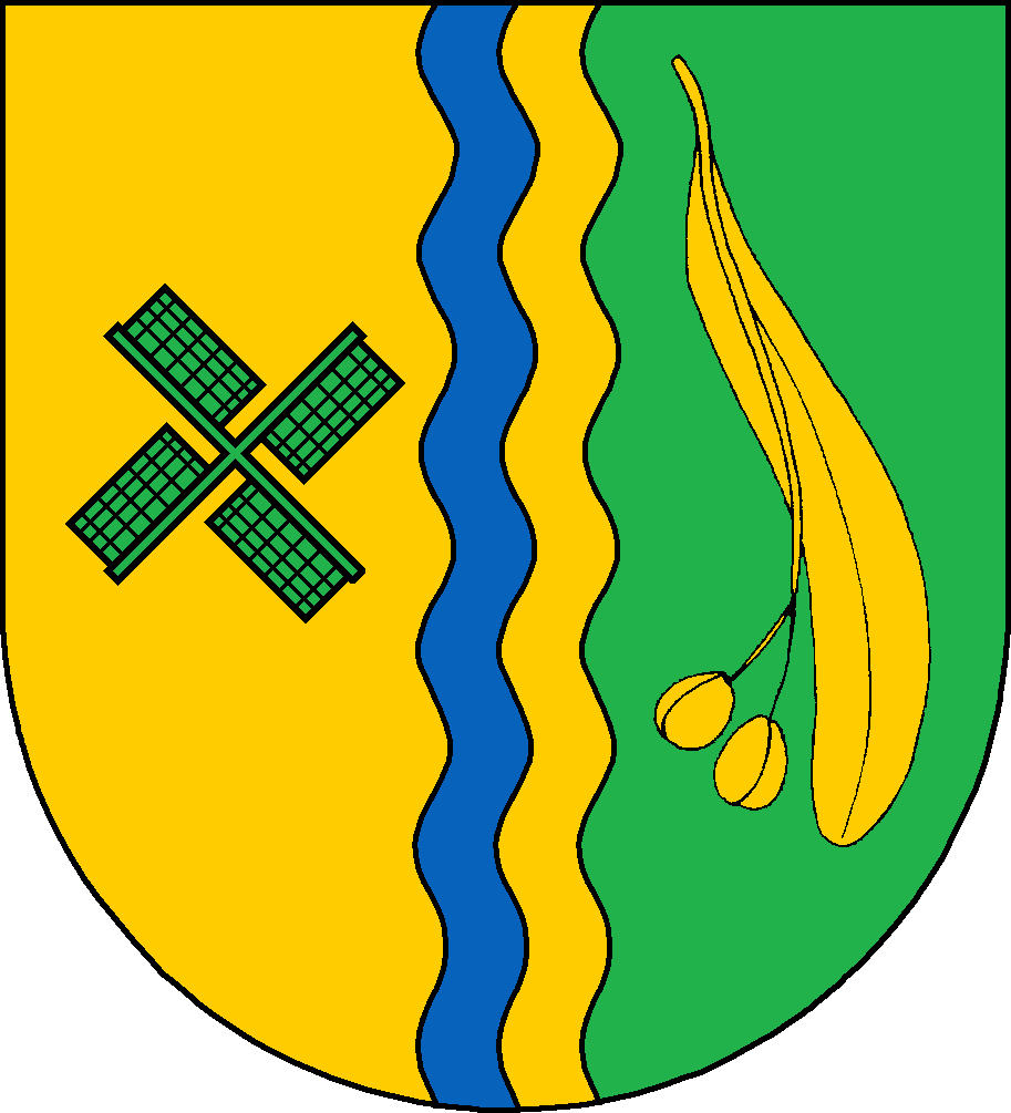 Coat of arms of the municipality Böel in Schleswig-Holstein, Germany.